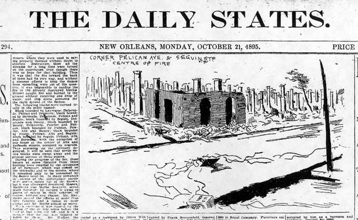 Portion of the front page of "The Daily States" newspaper, New Orleans, for 21 October, 1895, with illustration and story about the great fire which leveled much of the Algiers Point district of the city.